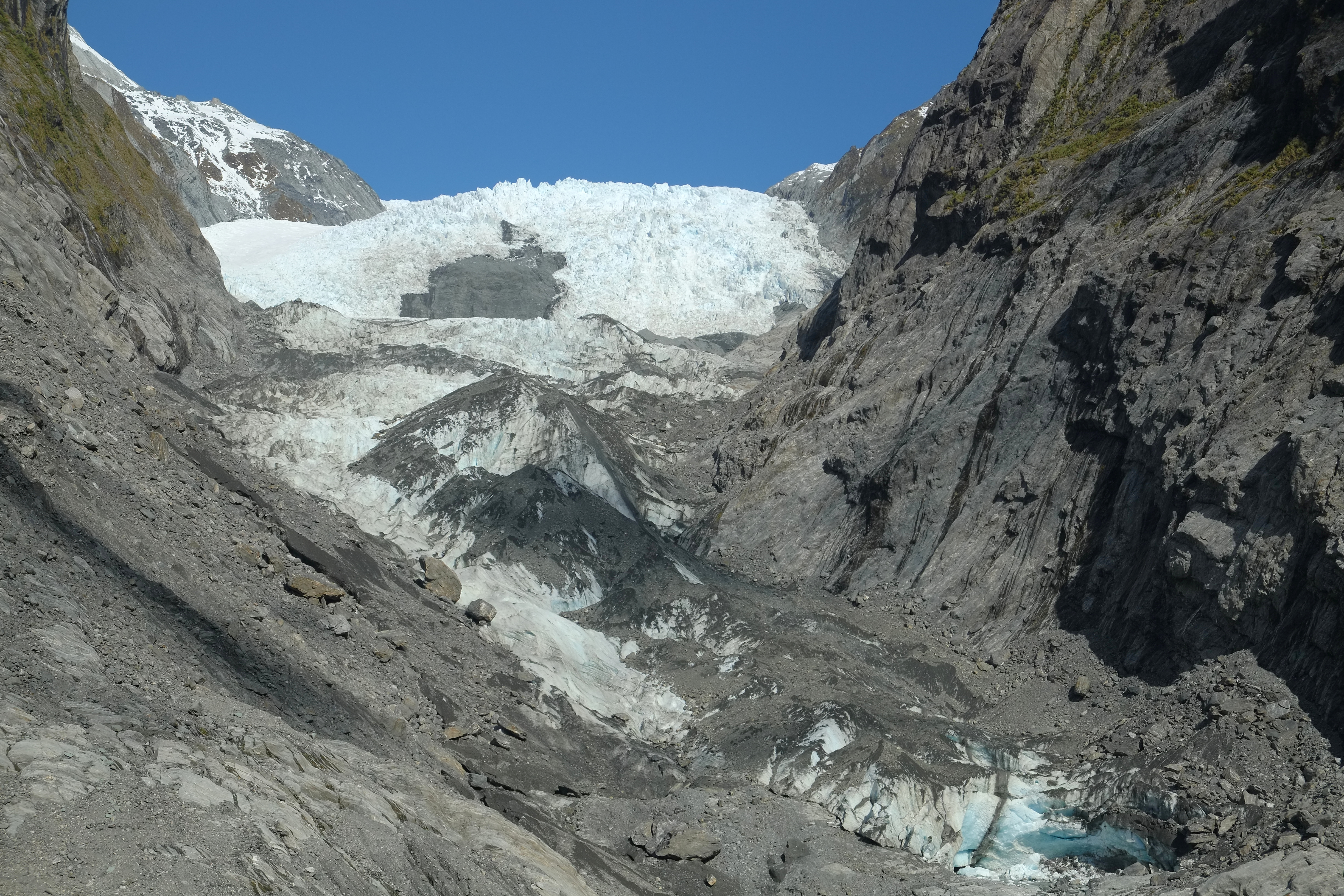 Lower part of Franz Josef Glacier